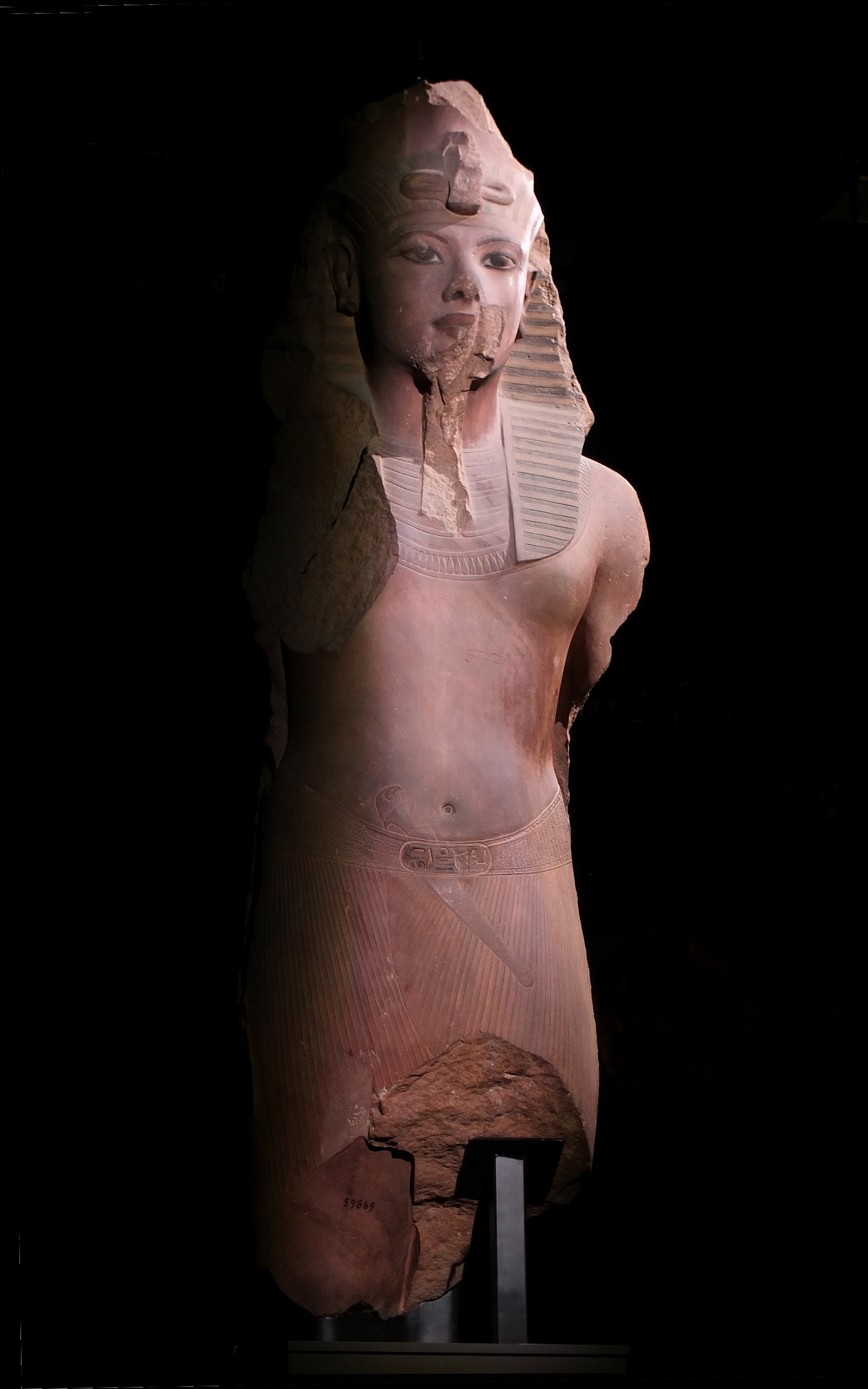 Colossal statue of Tutankhamun. Painted quartzite. From Thebes, Funerary Temple of Ay and Horembheb. New Kindom, 18th Dynasty, Reigns of Tutankhamun, Ay and Horemheb (1355-1315 BCE) - Musée du Caire. Exposed in Paris's exposition "Toutânkhamon, le trésor du pharaon" march-september 2019, Grande halle de La Villette.